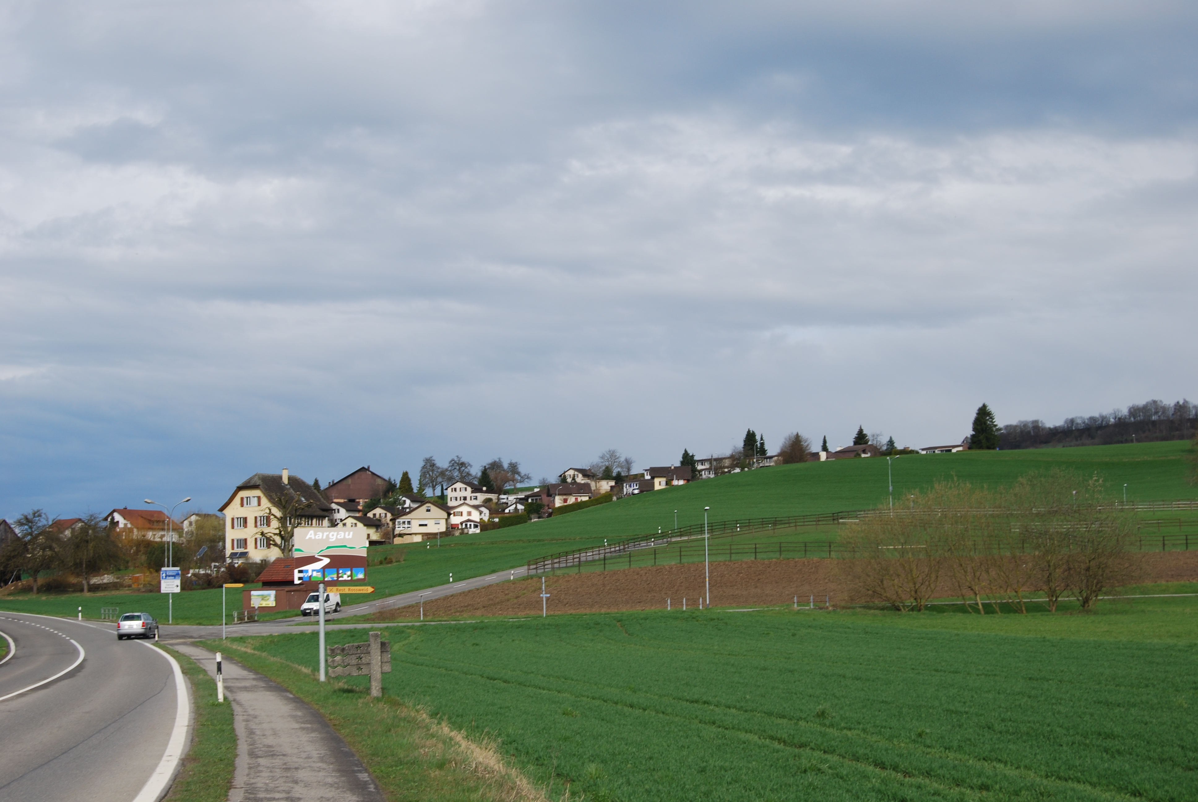 Schneisingen, canton of Aargau, SwitzerlandEsperanto: Schneisingen, Kantono Argovio, Svislando